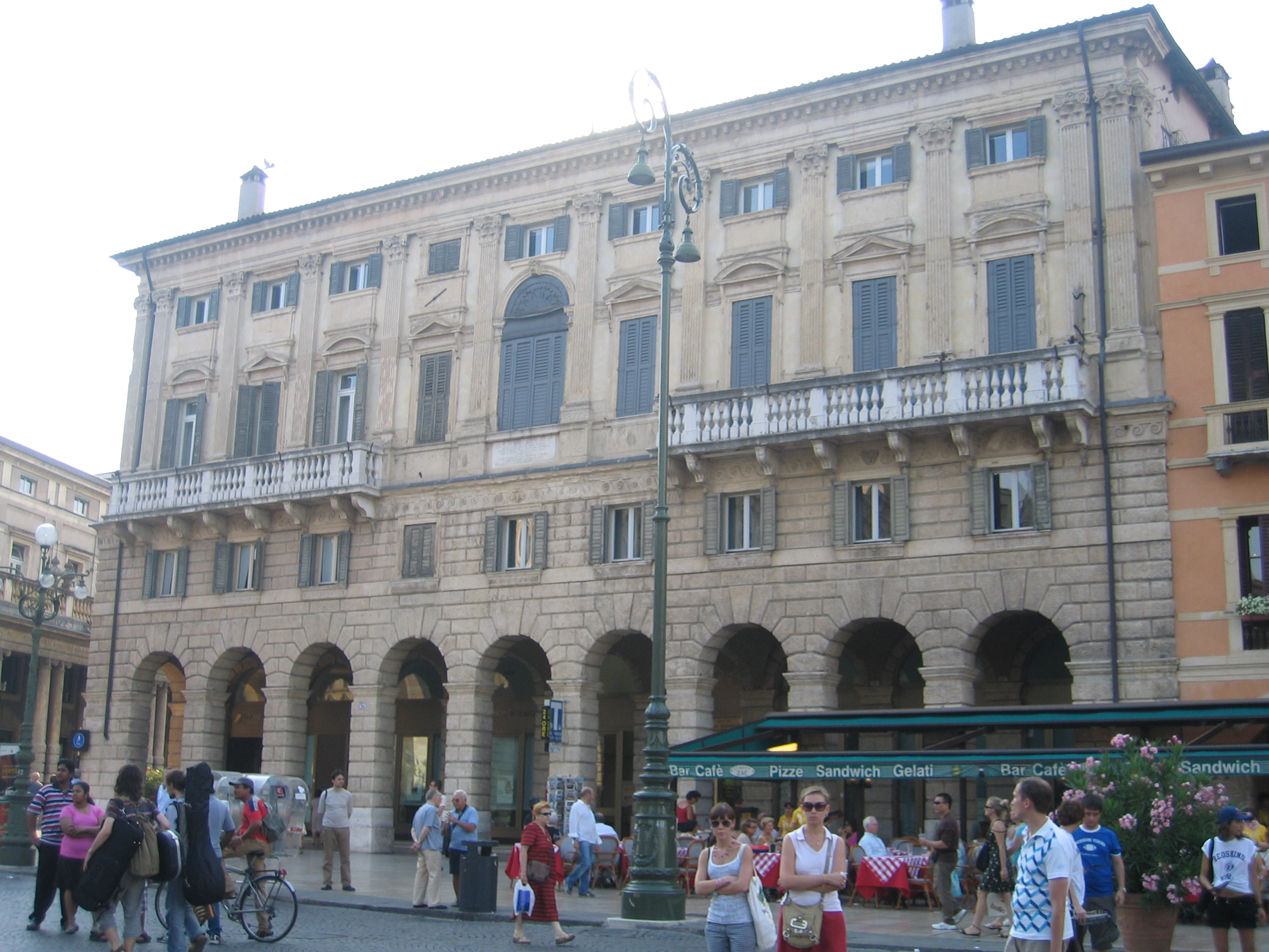 Ottolini Palace, Piazza Bra, Verona